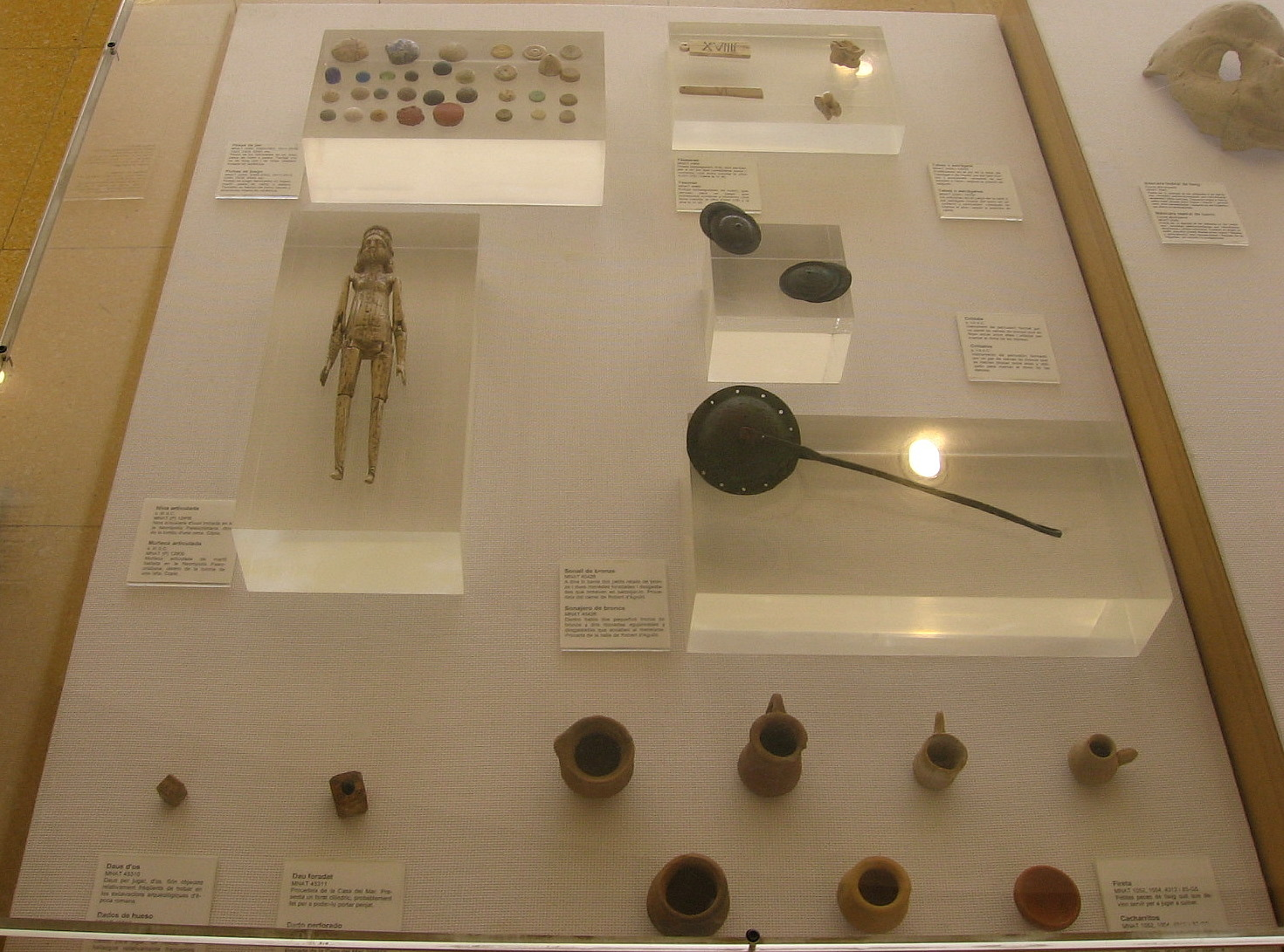 A selection of ancient Roman toys, in the Museu Nacional Arqueològic de Tarragona, in Tarragona, Catalonia, Spain. The display includes several toys that would be familiar to children today, including a doll, rattles, dice, and small dishes for playing house.